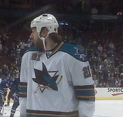 Alexei Semenov of the San Jose Sharks warming up at GM Place before playing the Vancouver Canucks on March 7, 2009.